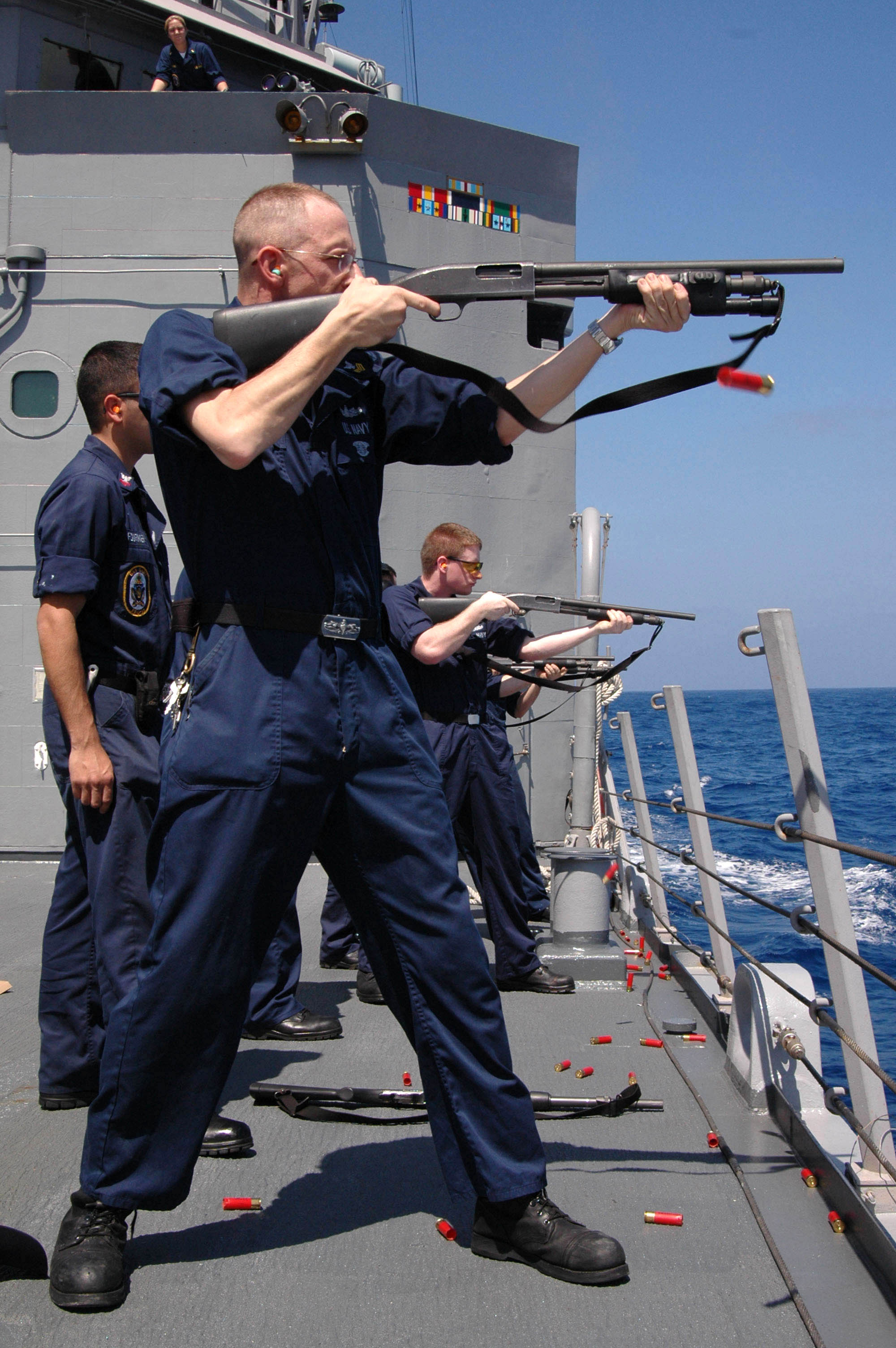 Pacific Ocean (Mar. 26, 2005) - Sonar Technician 1st Class Christopher Fromknecht fires a Mossberg 12-gauge shotgun from the forecastle of the guided missile frigate USS Gary (FFG 51) during a weapons familiarization exercise. The shoot was organized as a way to familiarize Sailors with the proper firing techniques of the 12-gauge shotgun. Currently under way in the 7th Fleet area of responsibility, Gary demonstrates power projection and sea control as one of the USS Kitty Hawk (CV 63) Carrier Strike Group's forward-deployed frigates, operating from Yokosuka, Japan. U.S. Navy photo by Photographer's Mate 3rd Class Nick Melchor (RELEASED)